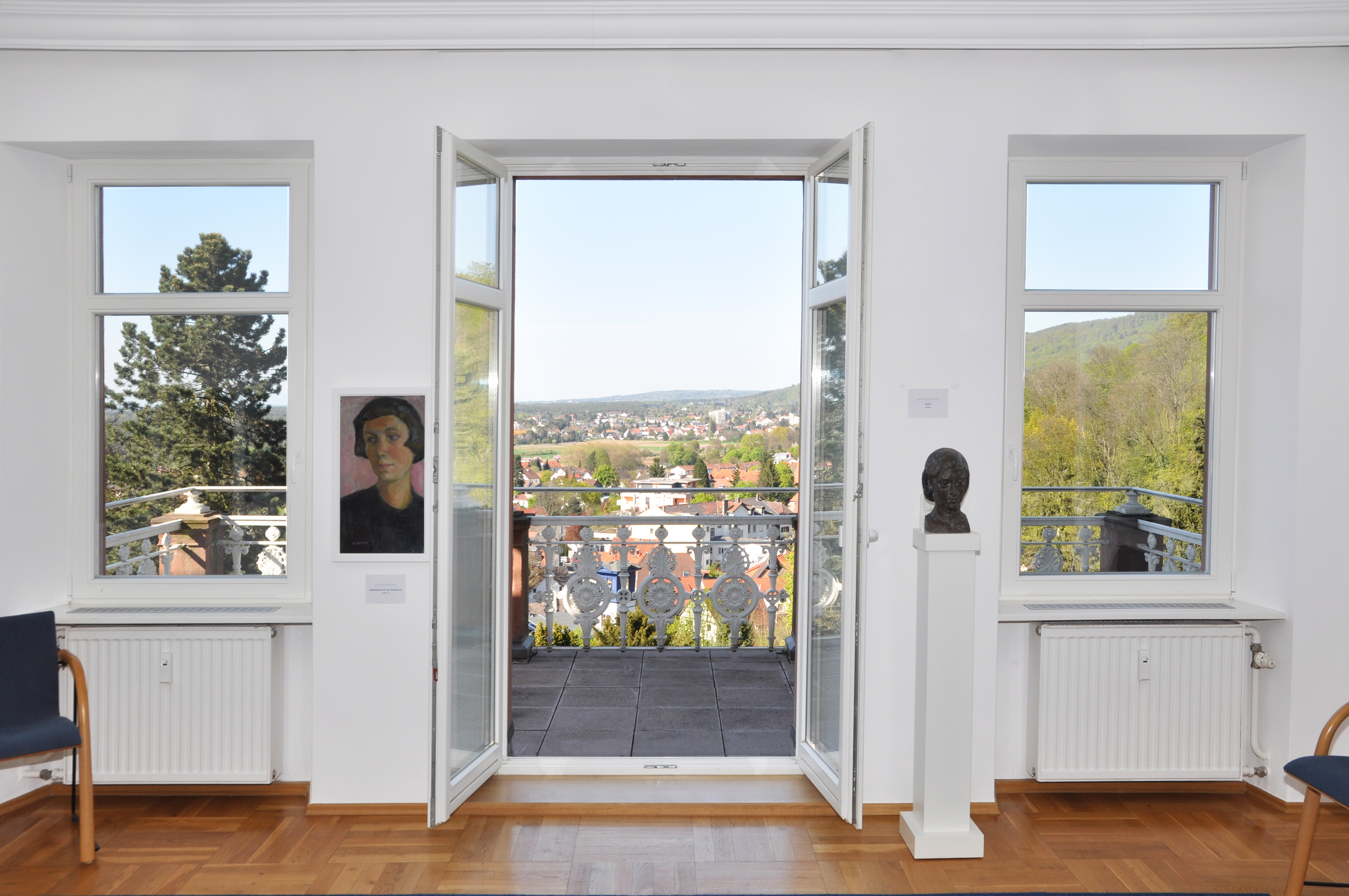 View from the museum